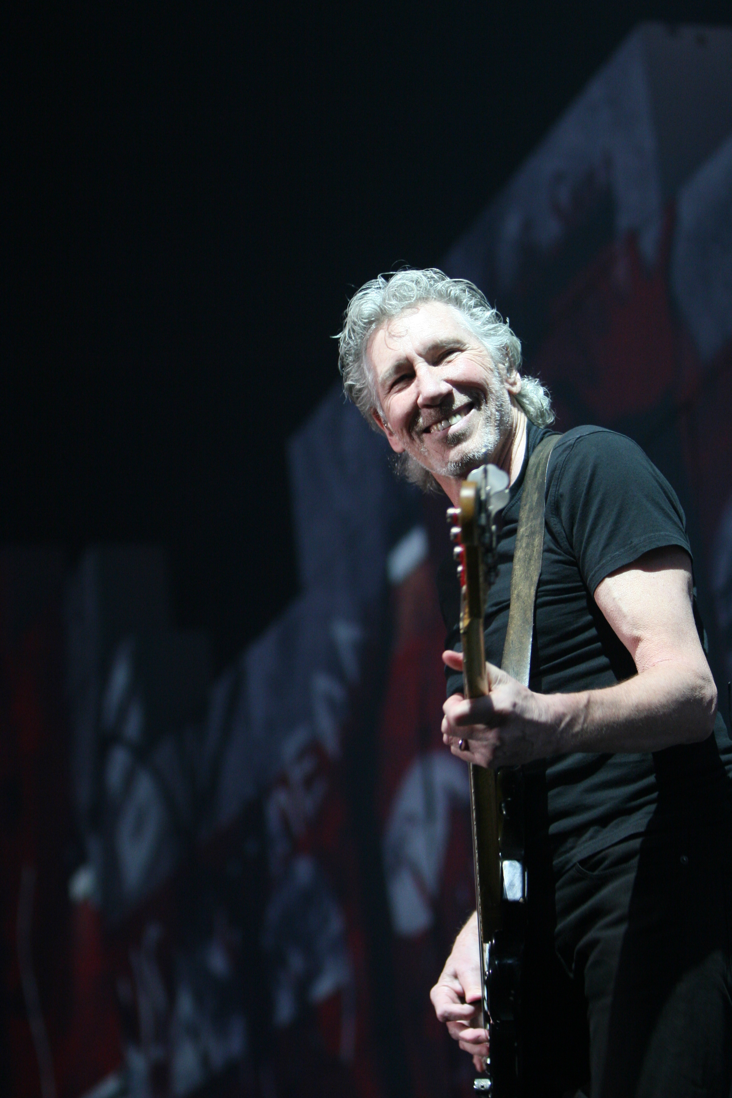 Roger Waters in Barcelona (Spain) during The Wall Live.